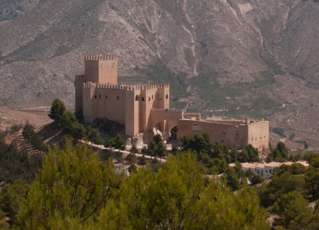 Castillo de Velez Blanco y la sierra de la Muela al fondo This is a photography of a Special Area of Conservation in Spain with the ID: ES6110003. Natura2000 entry, EEA entry